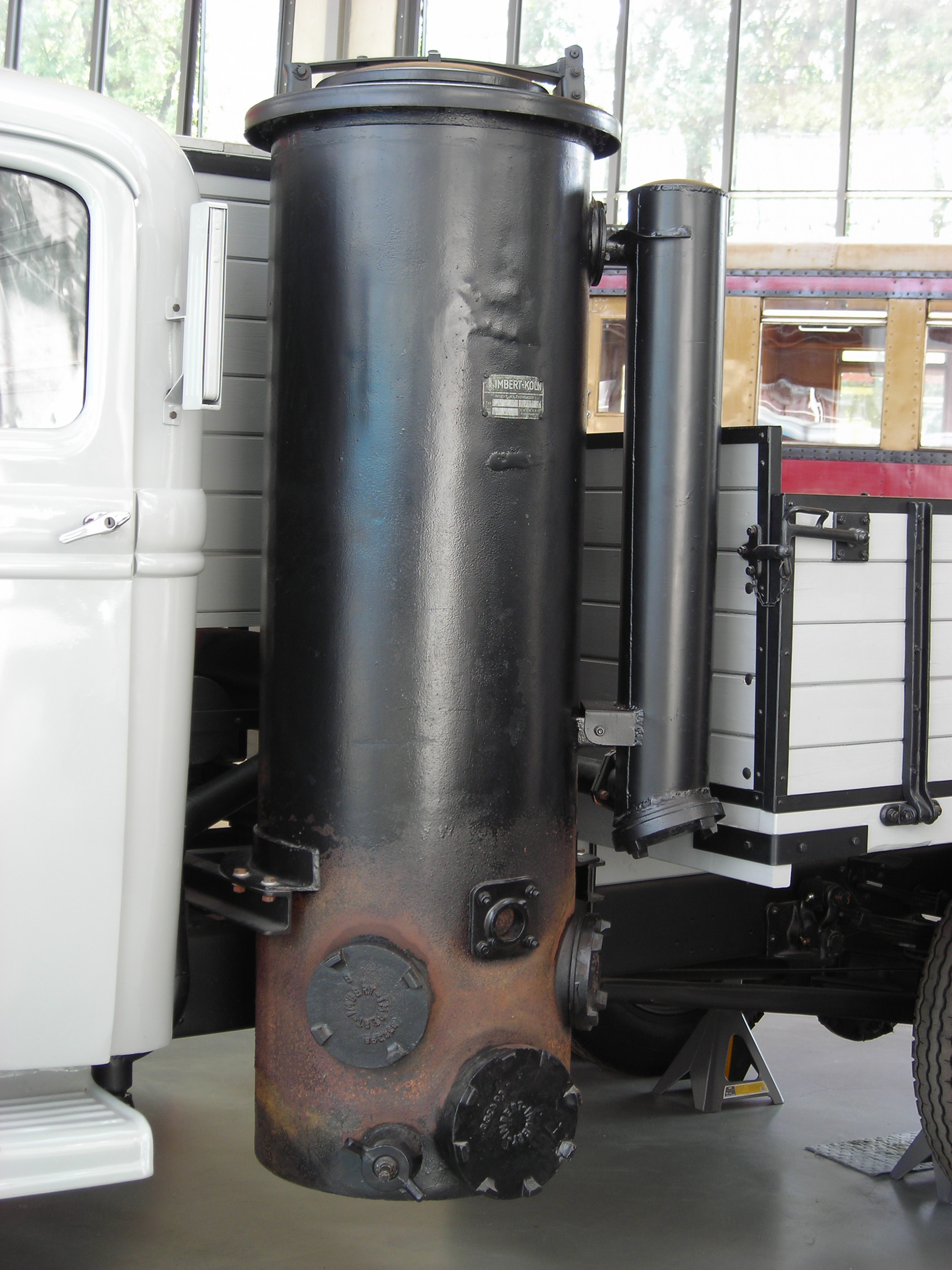 Wood Gazifier of a 1938 Ford V8 truck Type 51 — on display at Deutsches Museum Verkehrszentrum, Munich.